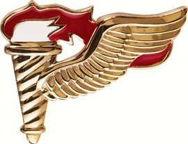 United States Army Pathfinder Badge